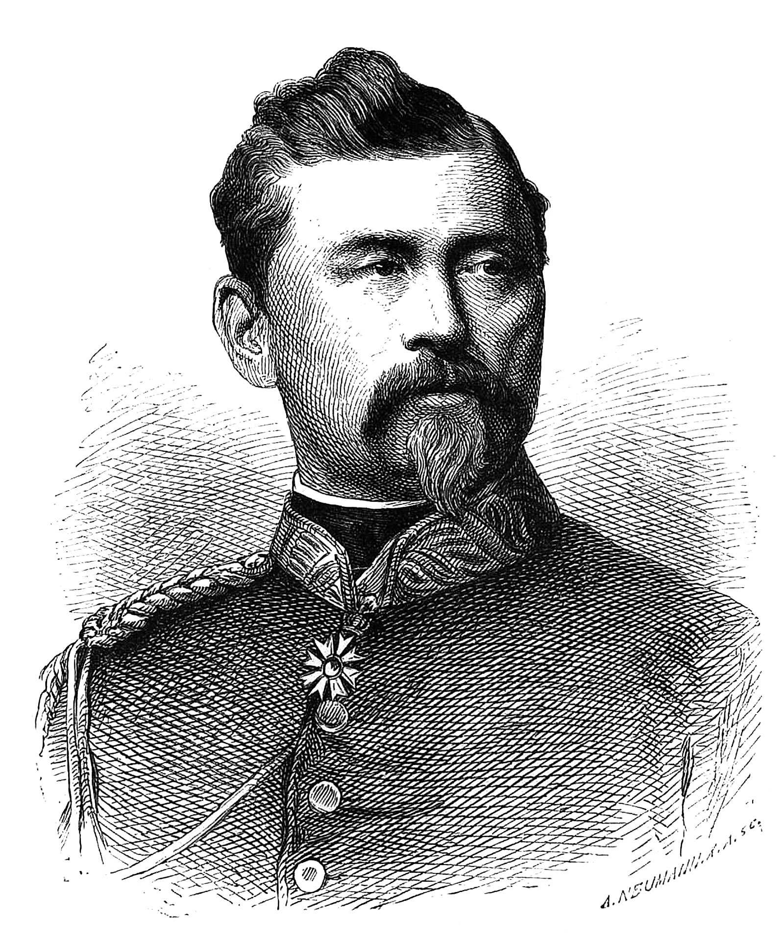 caption: "Ludwig Freiherr von der Tann."